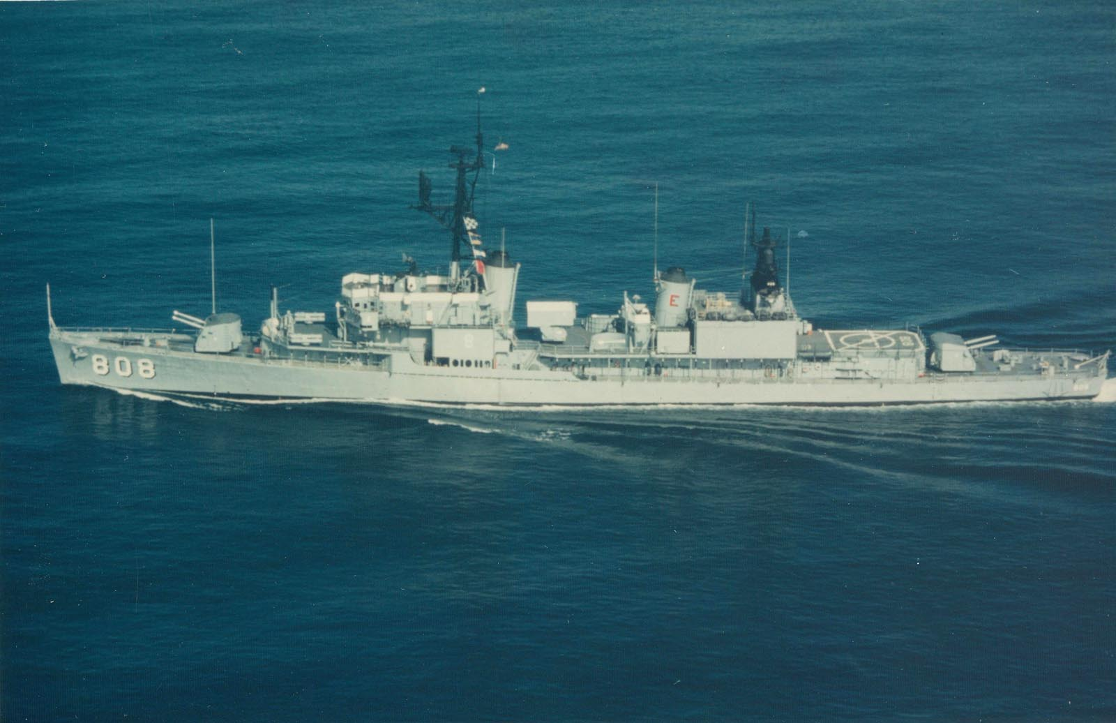 The U.S. Navy destroyer USS Dennis J. Buckley (DD-808) underway off the coast of San Diego, California (USA), on 9 June 1970.